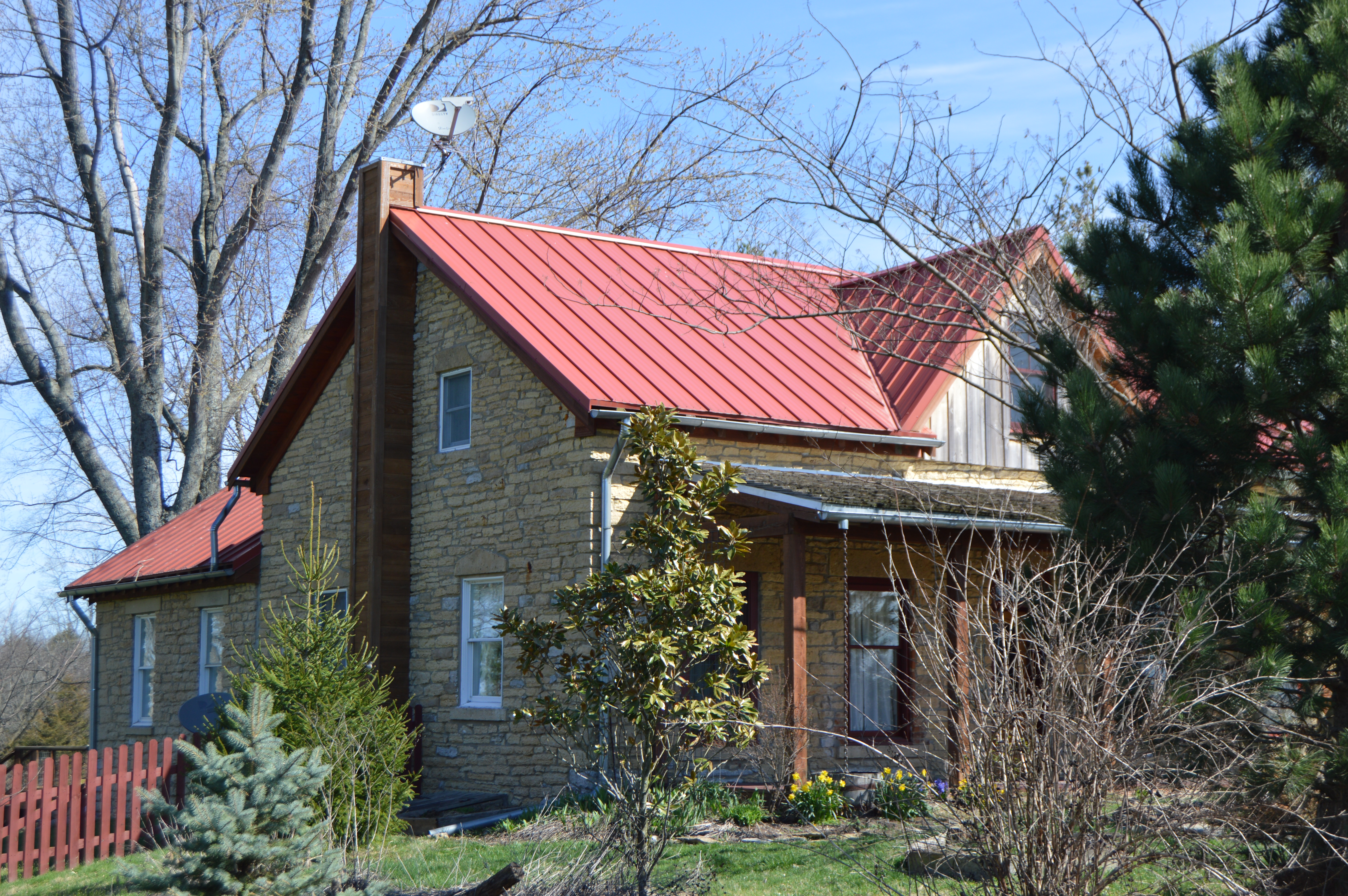 Front and western side of the farmhouse at the Mathias Wolf Farm, located at 4137 E. Pleasant Ridge Road east of Madison in Madison Township, Jefferson County, Indiana, United States. Built in 1854, the farmstead is listed on the National Register of Historic Places.